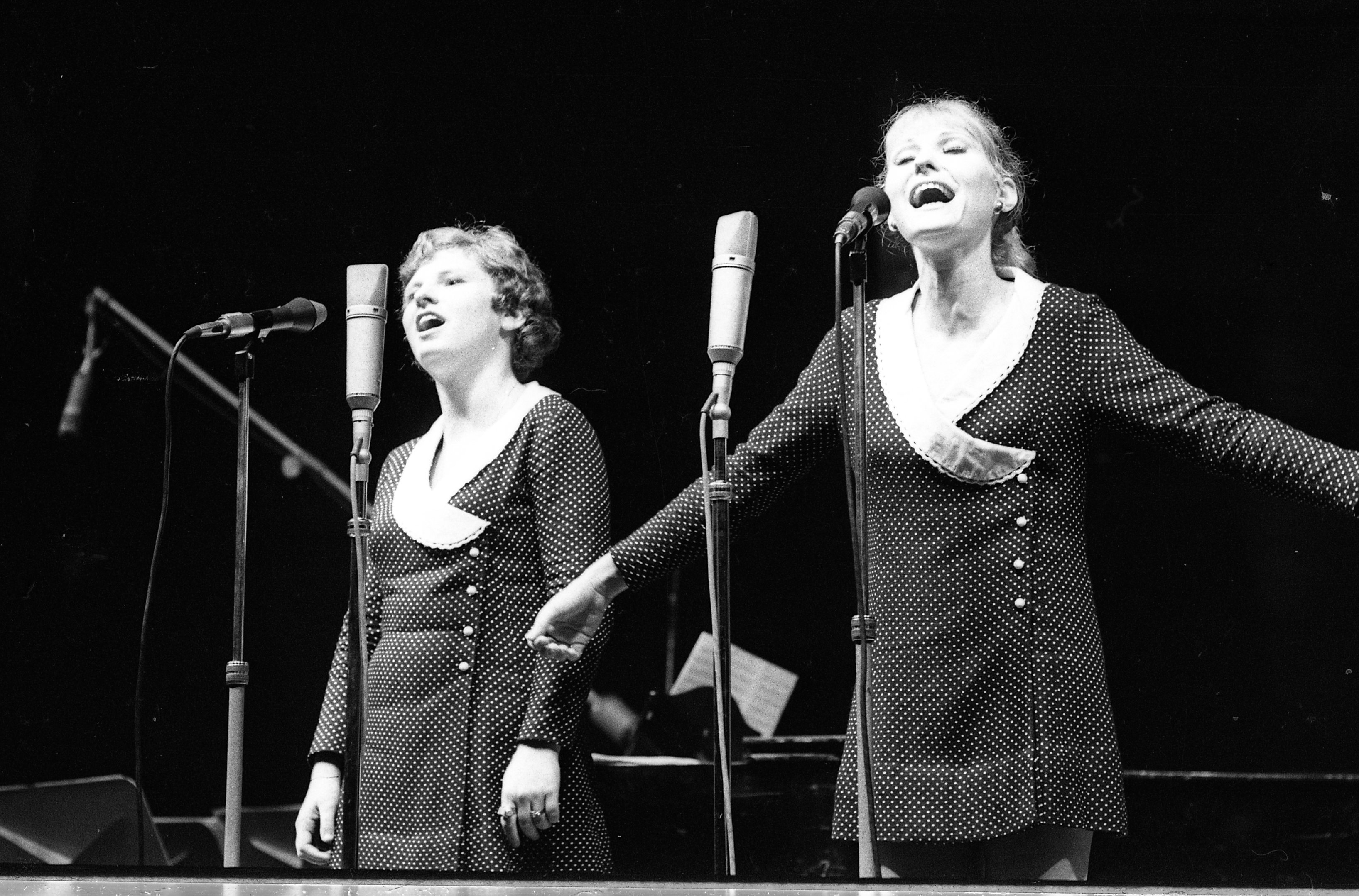 The First Hasidic Festival.